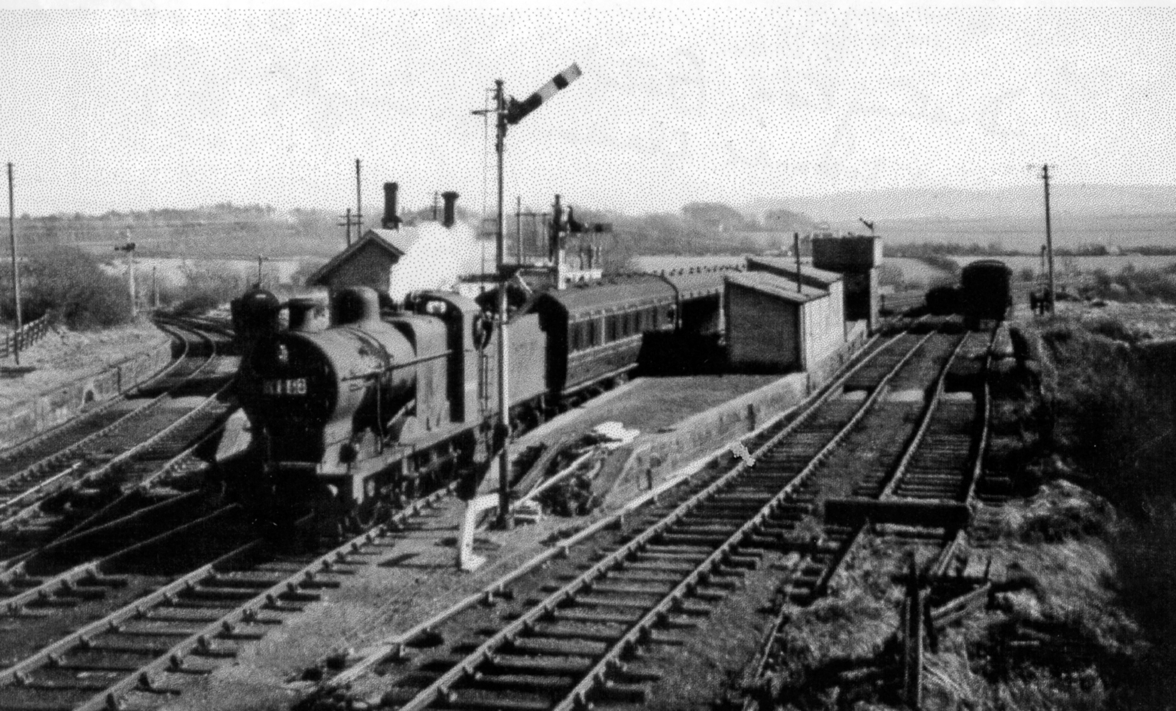 Distington (Joint) station, with train 1951 View SW, towards Cleator Moor (Cleator & Workington Junction Railway, with excursion train returning to Carlisle from Egremont headed by LMS 4F 0-6-0 No. 44461 (built 5/28, withdrawn 9/64). The line to the left is to Rowrah and Kelton Fell.